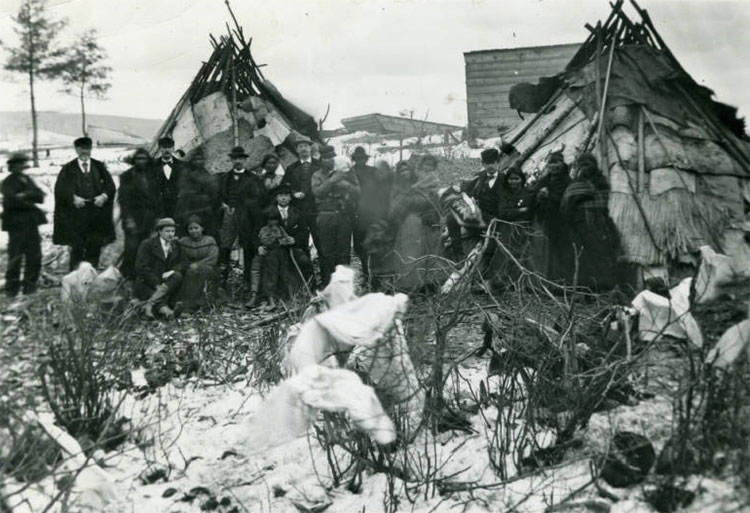 "Ojibwe residents and white visitors to the village or one of the camps on Minnesota Point in the 19th Century." Photo from University of Minnesota-Duluth Kathryn A. Martin Library Archives and Special Collections.